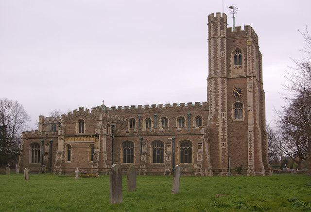 St Mary's Church, Cardington This church is much more recent than initial impressions might suggest. Although the chancel dates from the early 13th century, the remainder of the church was built in 1901 through the generosity of the Whitbread family, who lived in nearby Southill.